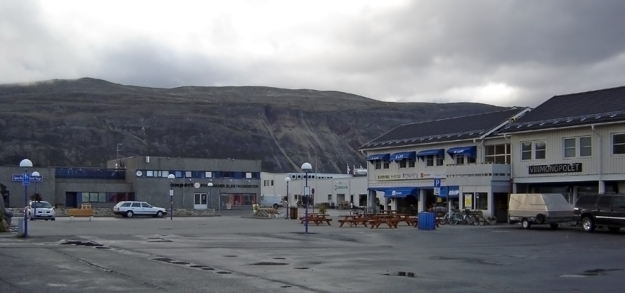 Centre of Lakselv, municipality of Porsanger, Finnmark, Norway